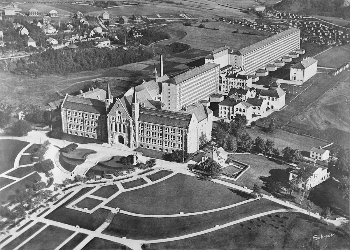 Photomontage showing suggested buildings on what is now known as Campus NTNU Gløshaugen, Trondheim, Norway. Architect: Karl Grevstad. The project was never built.